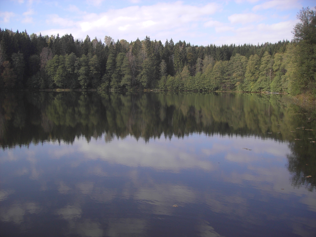 The western Škilietų Lake